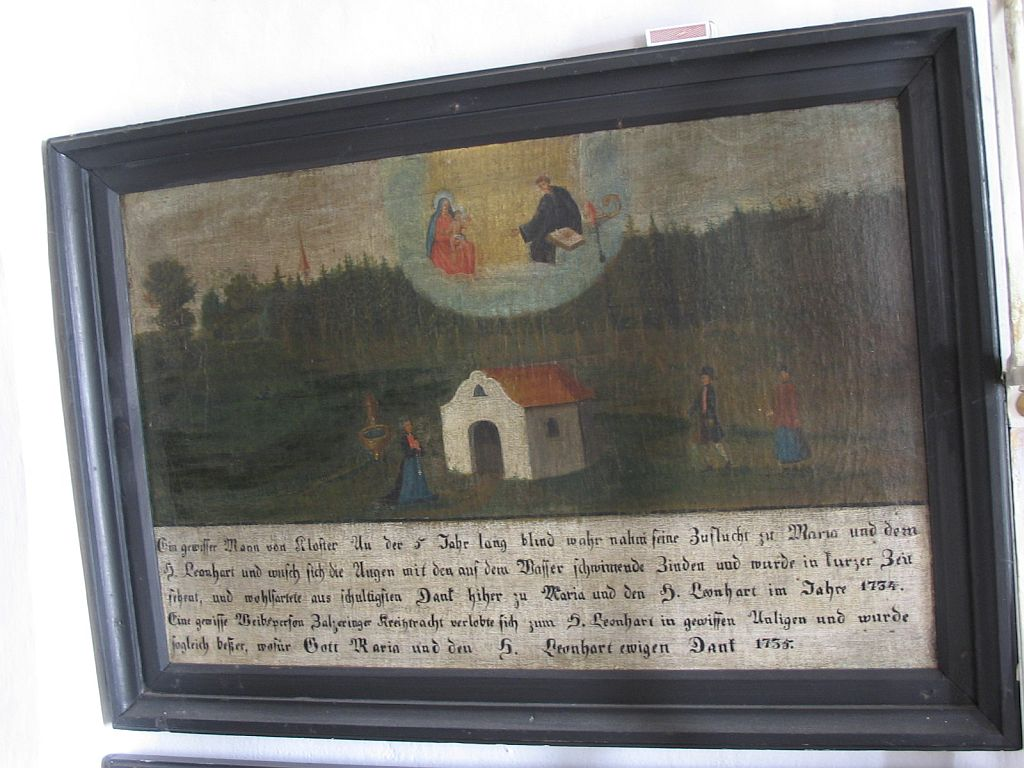 St. Leonhardsquelle, St. Leonhard, Stephanskirchen